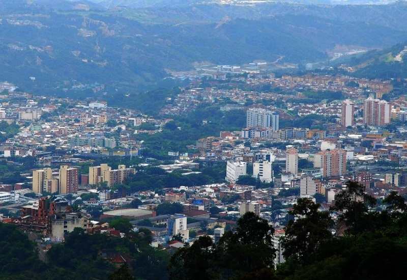 Bucaramanga City, Colombia.